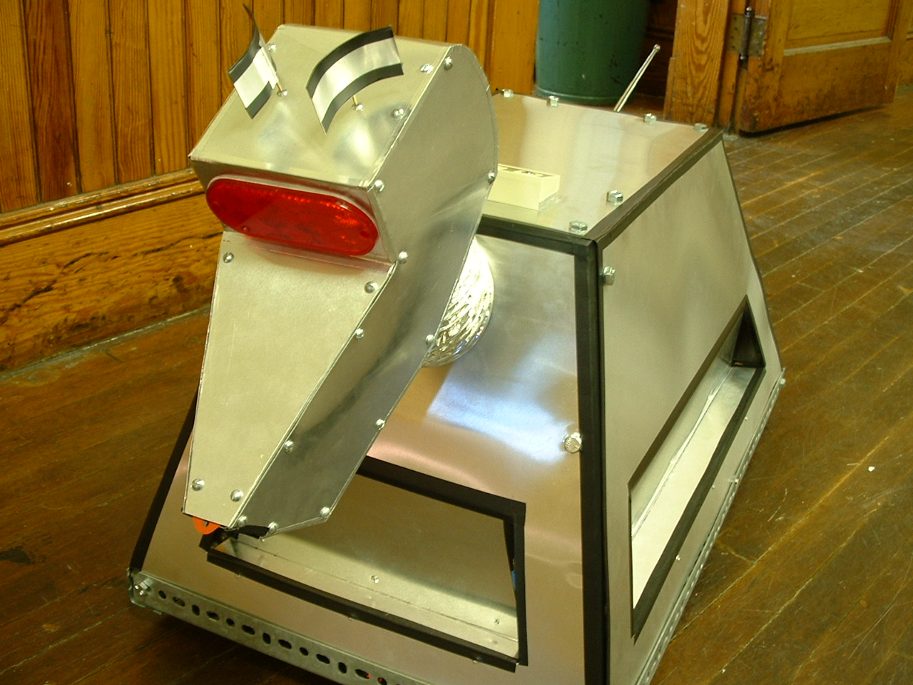 K-9 is based on the robot dog in the sci-fi show, Doctor Who. However, my K-9 is a real, programmable, electronic robot (no radio control here, unless you count a wi-fi link to a laptop). He is made of metal (see photo of his skeleton for details), is powered by a 12 volt lawn tractor battery, has an Intel Celeron processor for a brain (basically a stripped-down laptop), and is propelled by two windshield wiper motors connected to lawn mower wheels. In the original design, he used an optical mouse interfaced with the floor via a spring-loaded tension system. The mouse sent detailed x/y position data to the computer. However, this waxed floor posed a problem for K-9, as the optics reflected at the wrong angles. I'm now moving to a traditional wheel encoder system. He uses servos to move his tail and head. His tail can go up and down, left and right. His head can do the same. Eventually, I'll hook up his ears to rotate via servo as well. He is mentioned in Linux Journal and an older version can be seen in action from the following news clip on YouTube. He's no where near done yet, though the frame and body are mostly completed. There is MUCH to do in the area of electronics, sensors, artificial intelligence, etc. I'll probably be tinkering with the old fellow for years to come!